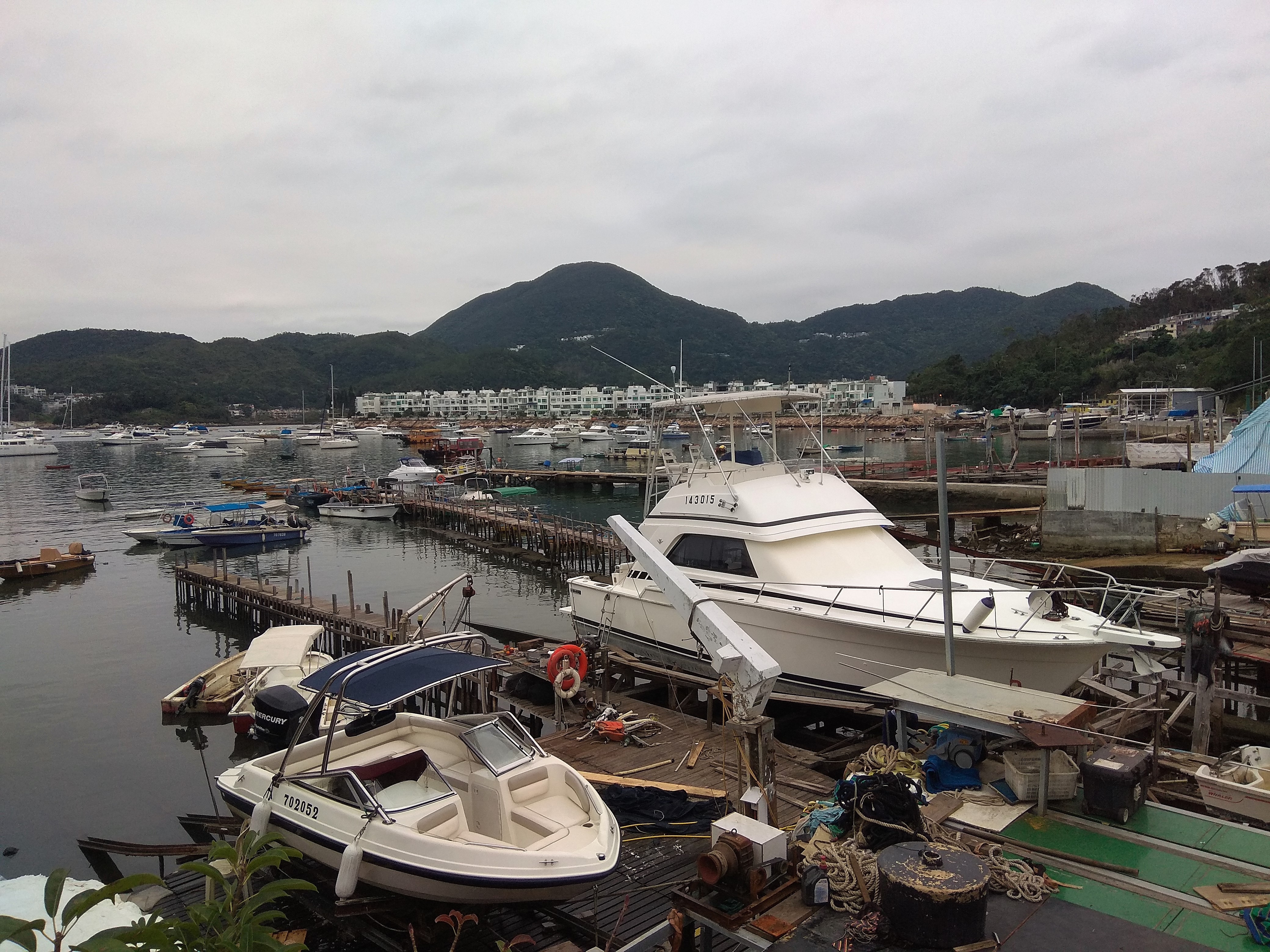 Hebe Haven, Sai Kung District, Hong Kong